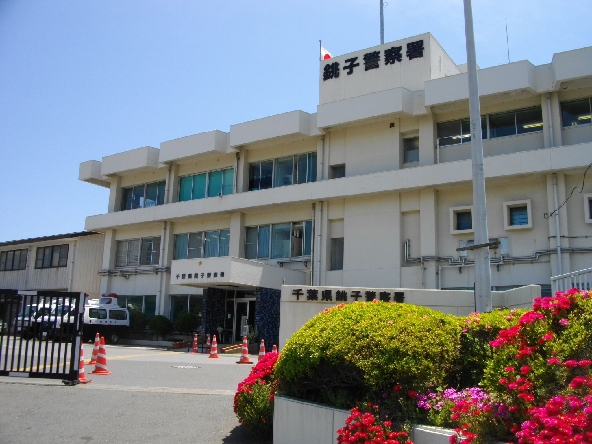 Choshi Police Station